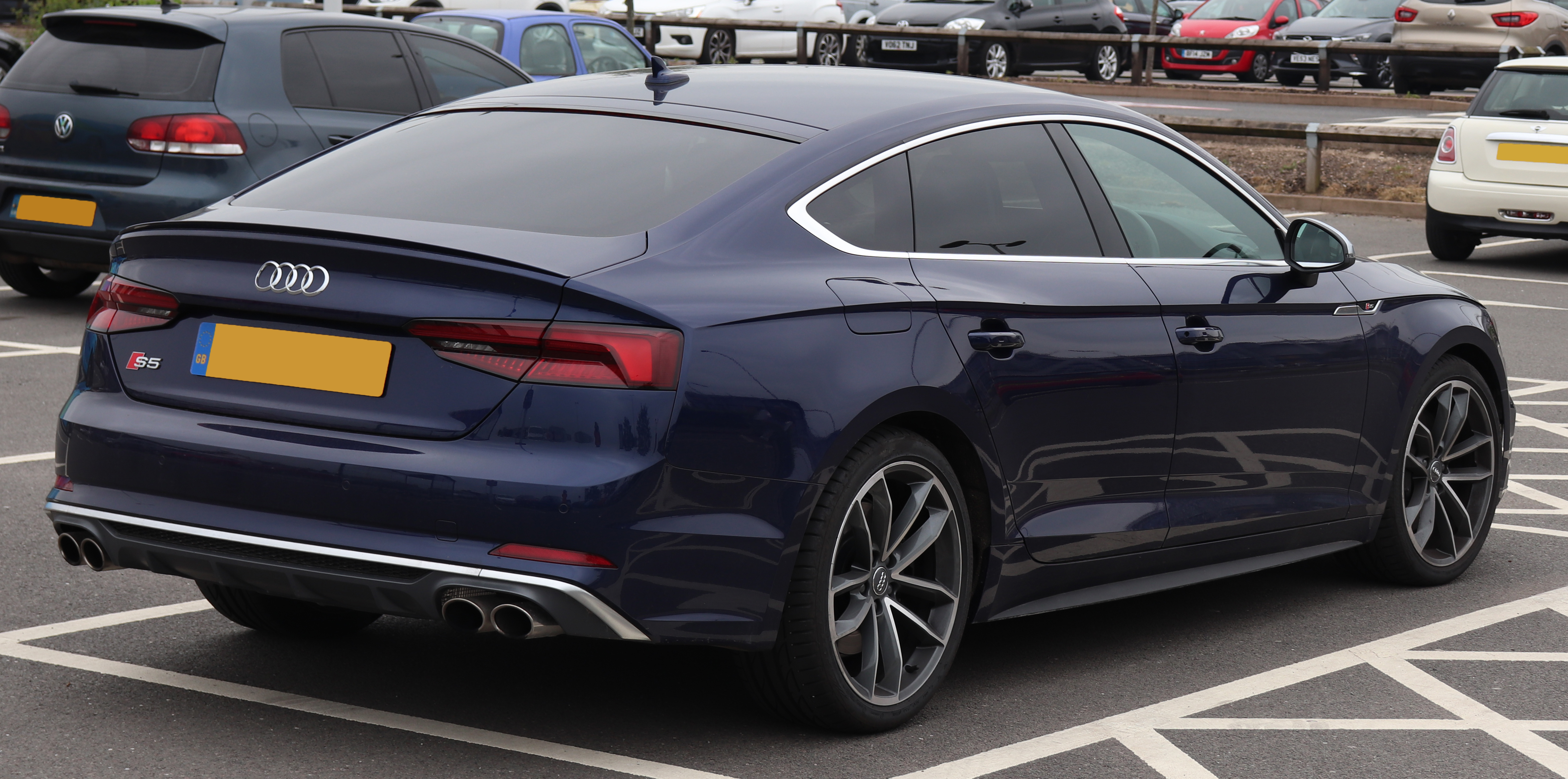 2018 Audi S5 TFSi Quattro Automatic 3.0 Rear Taken in Leamington Spa